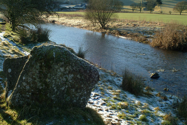 Girdle Stanes and River White Esk. The river is slowly eroding away the stone circle.